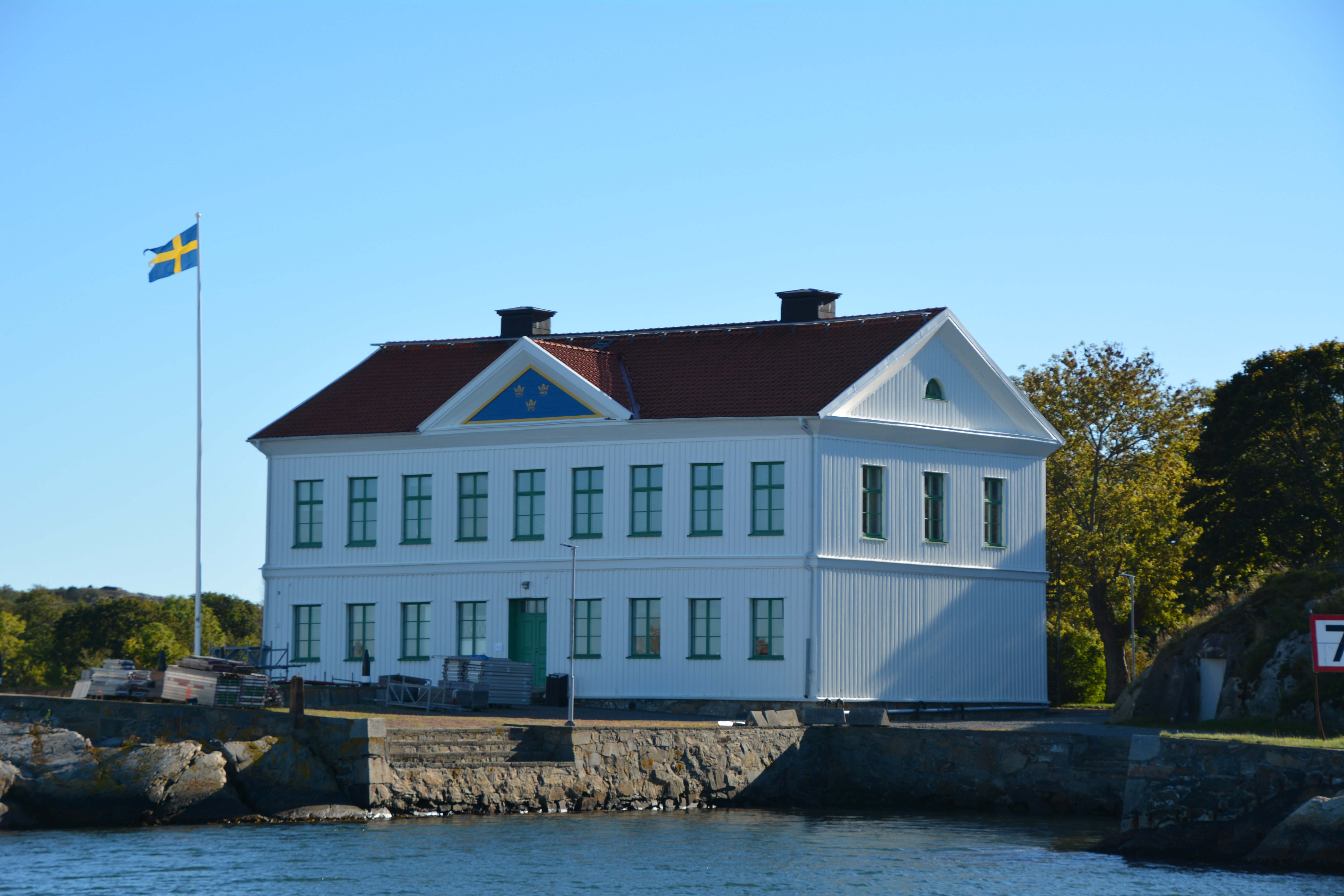 Kanslihuset, Känsö